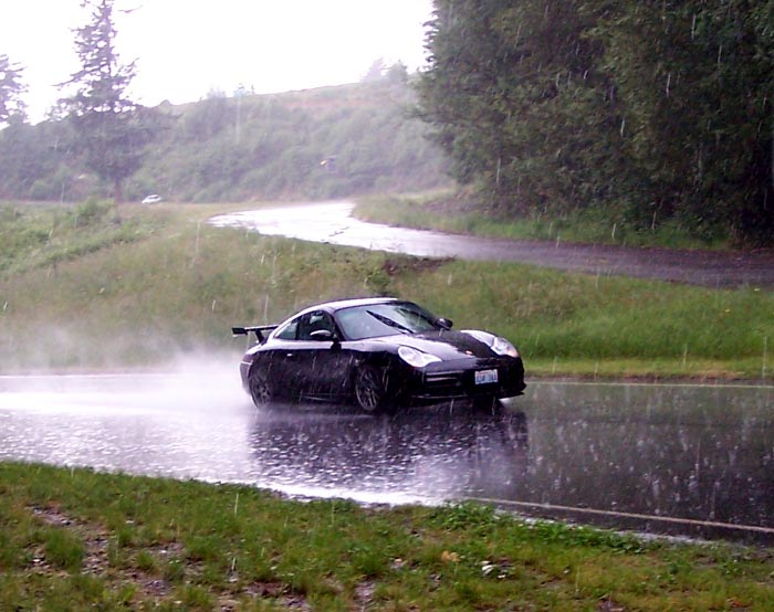 Worst of the deluge; Carrie Bishop photo. I was driving in this downpour. Runoff from turn 3A above. Slightly larger image